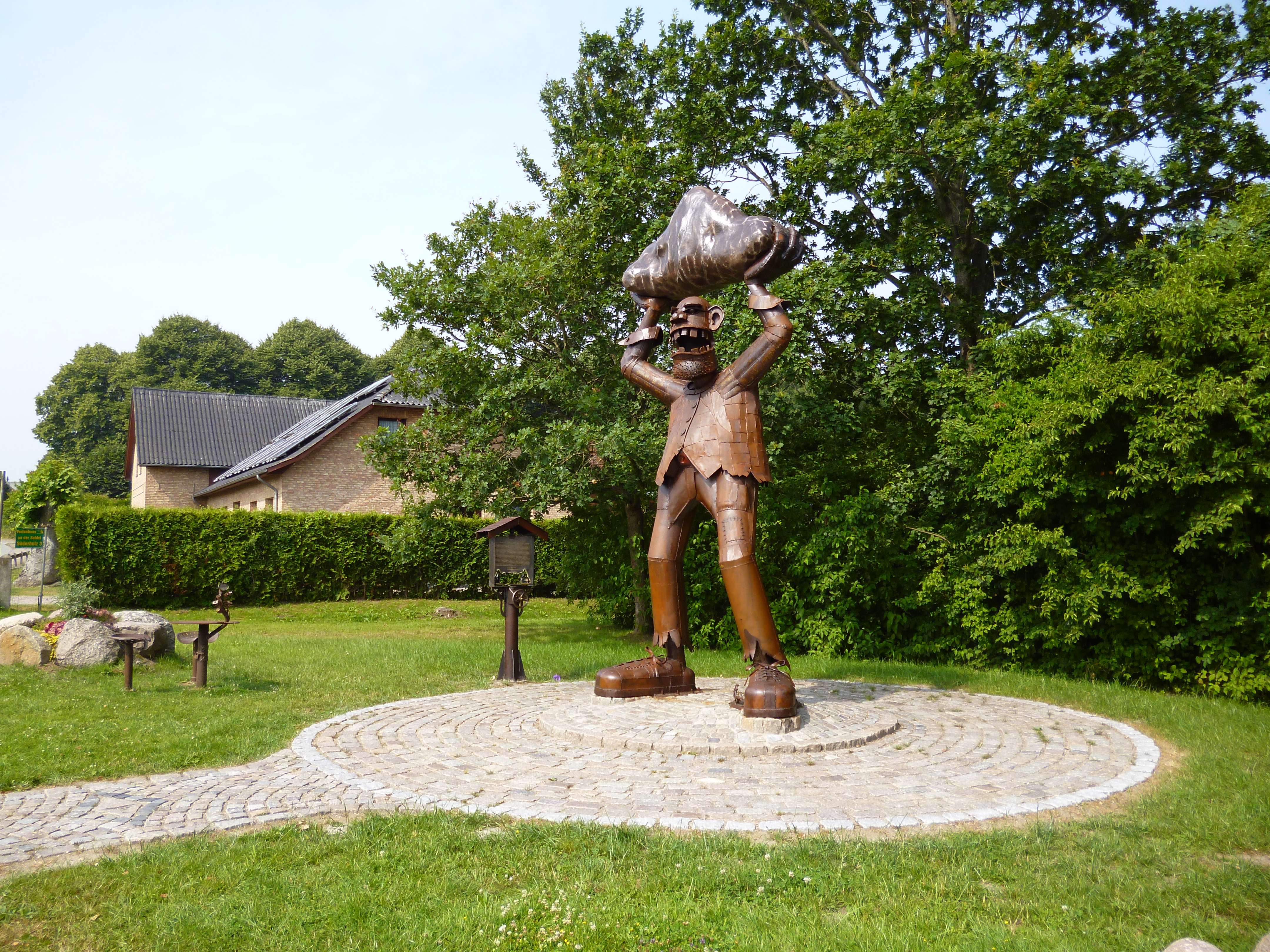 Giant of Ulsnis. Artwork by Andi Feldmann.